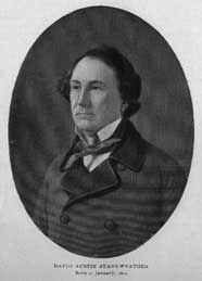 David A. Starkweather